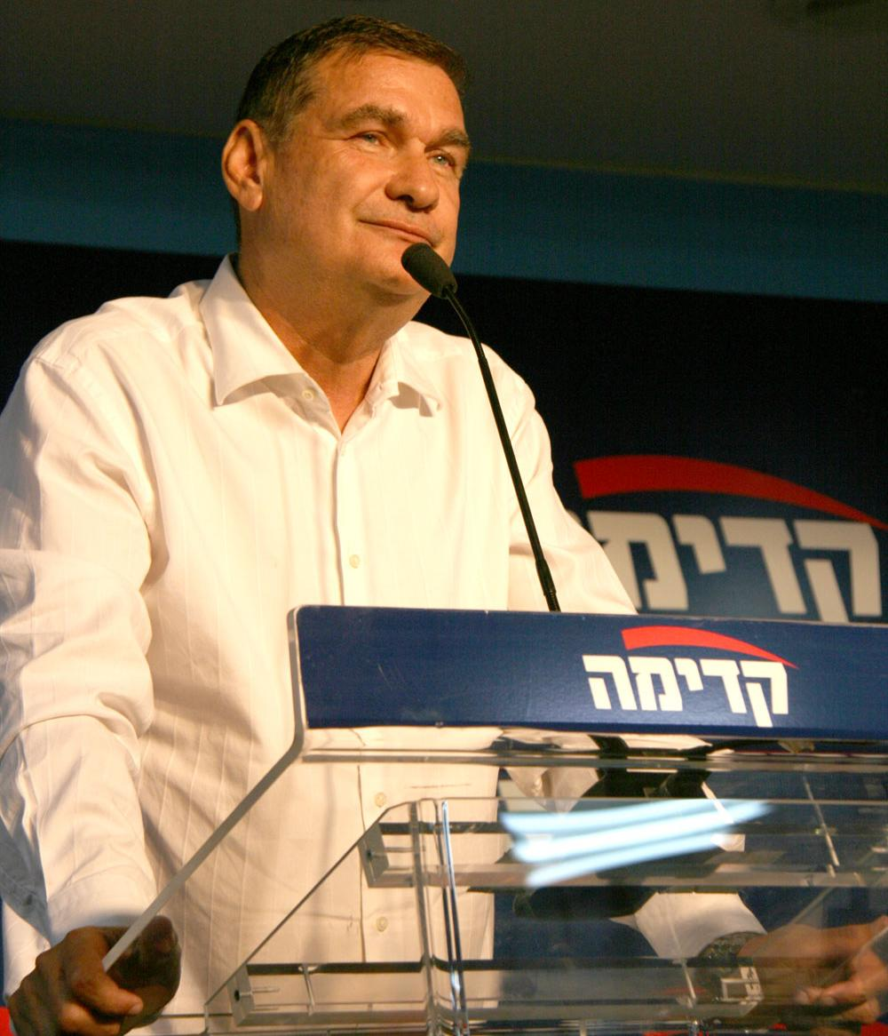 Haim Ramon, Kadima Party (Israel). Photo by: Itzik Edri, Kadima Party PR Team